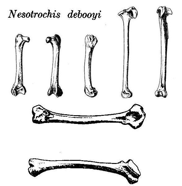 Leg and foot bones. From Wetmore on Cave Birds of Porto Rico (Bulletin of the American Museum of Natural History) Vol. 46, Article 4, 1922 .